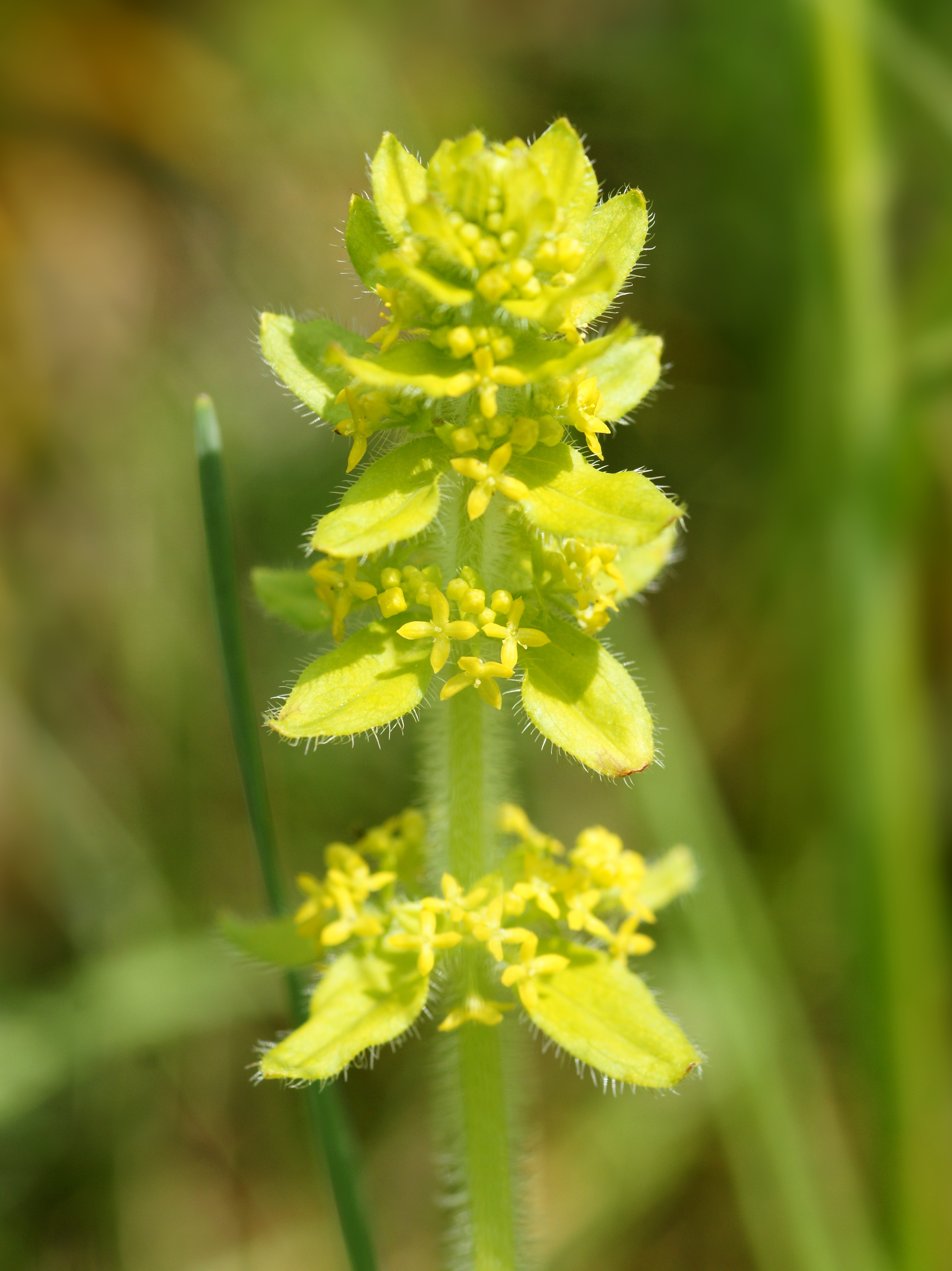 Crosswort at Matagne-la-Petite, Belgium.